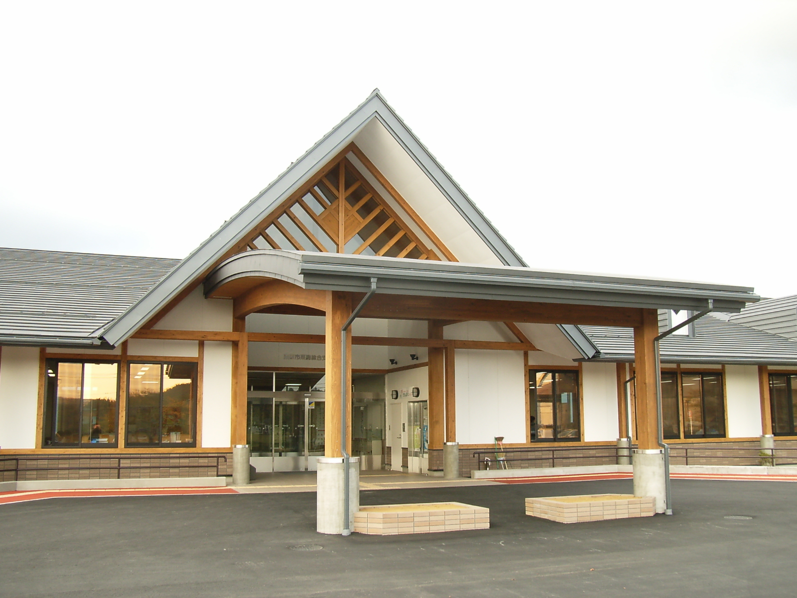 Kurikoma Branch of the Kurihara City Ofiice. Kurihara, Miyagi prefecture, Japan.